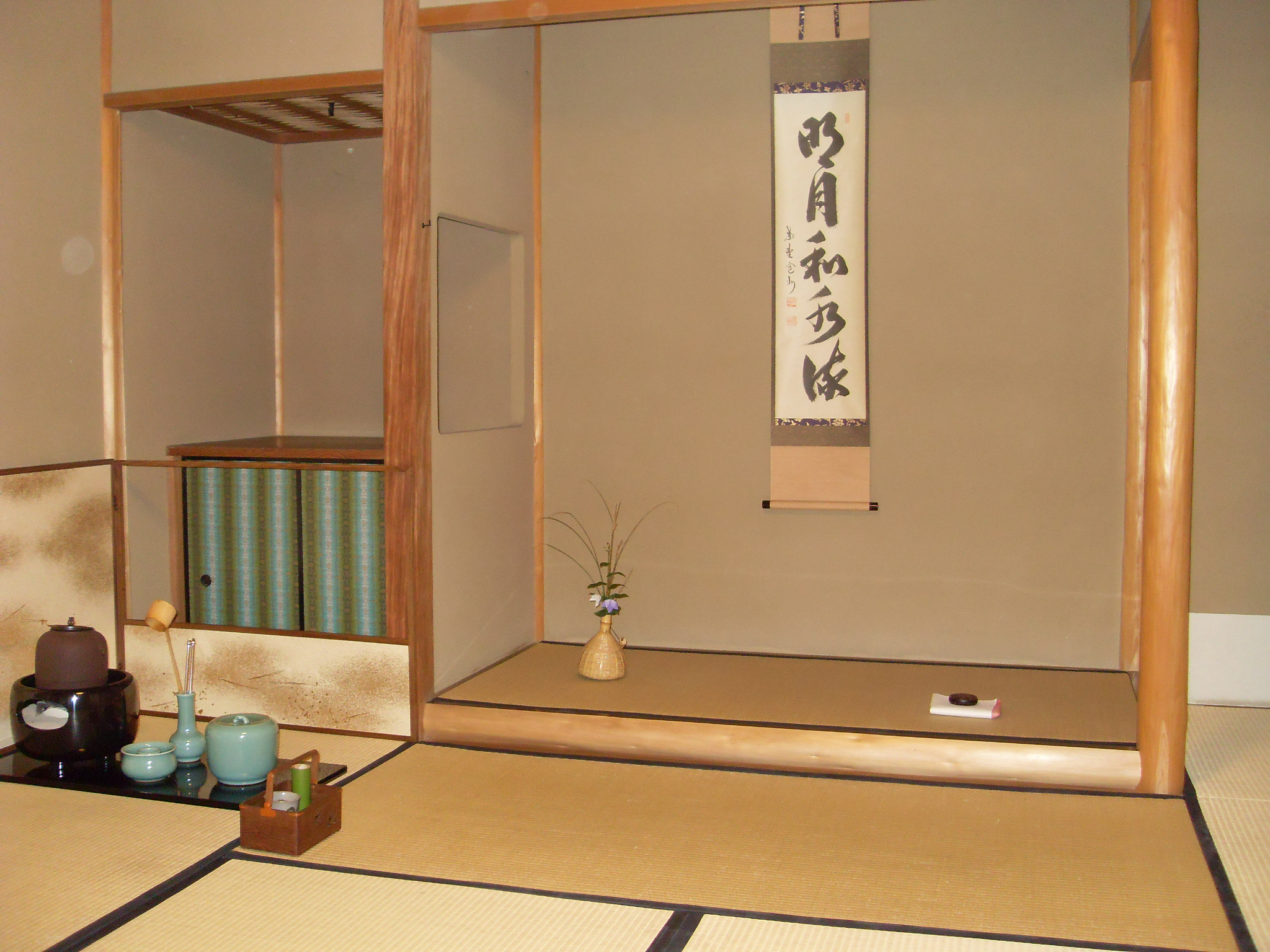 Japanese tearoom in Uji